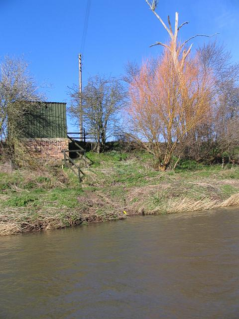 Water Levels A wee hut containing the apparatus for measuring the water height (a gauging station). The measurement appears on the SEPA website. (Added information: this is the Scottish Environment Protection Agency